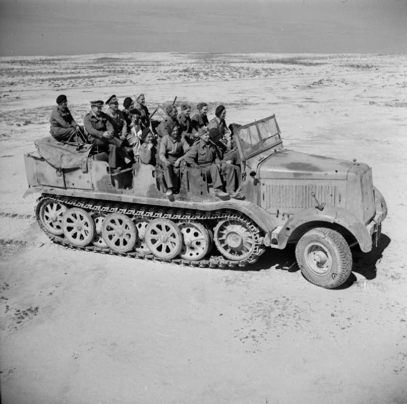 The British Army in North Africa 1943 A captured German Sd.Kfz. 8 artillery tractor in the Western desert, 22 February 1943.